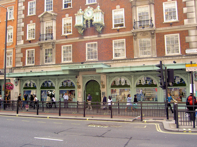 Fortnum and Mason. The world famous shop on Piccadilly.